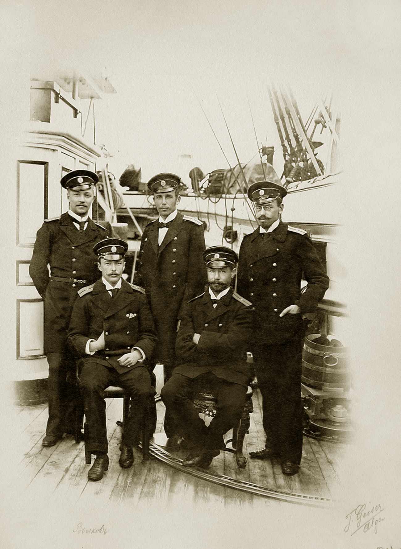 Konstantin Schullz